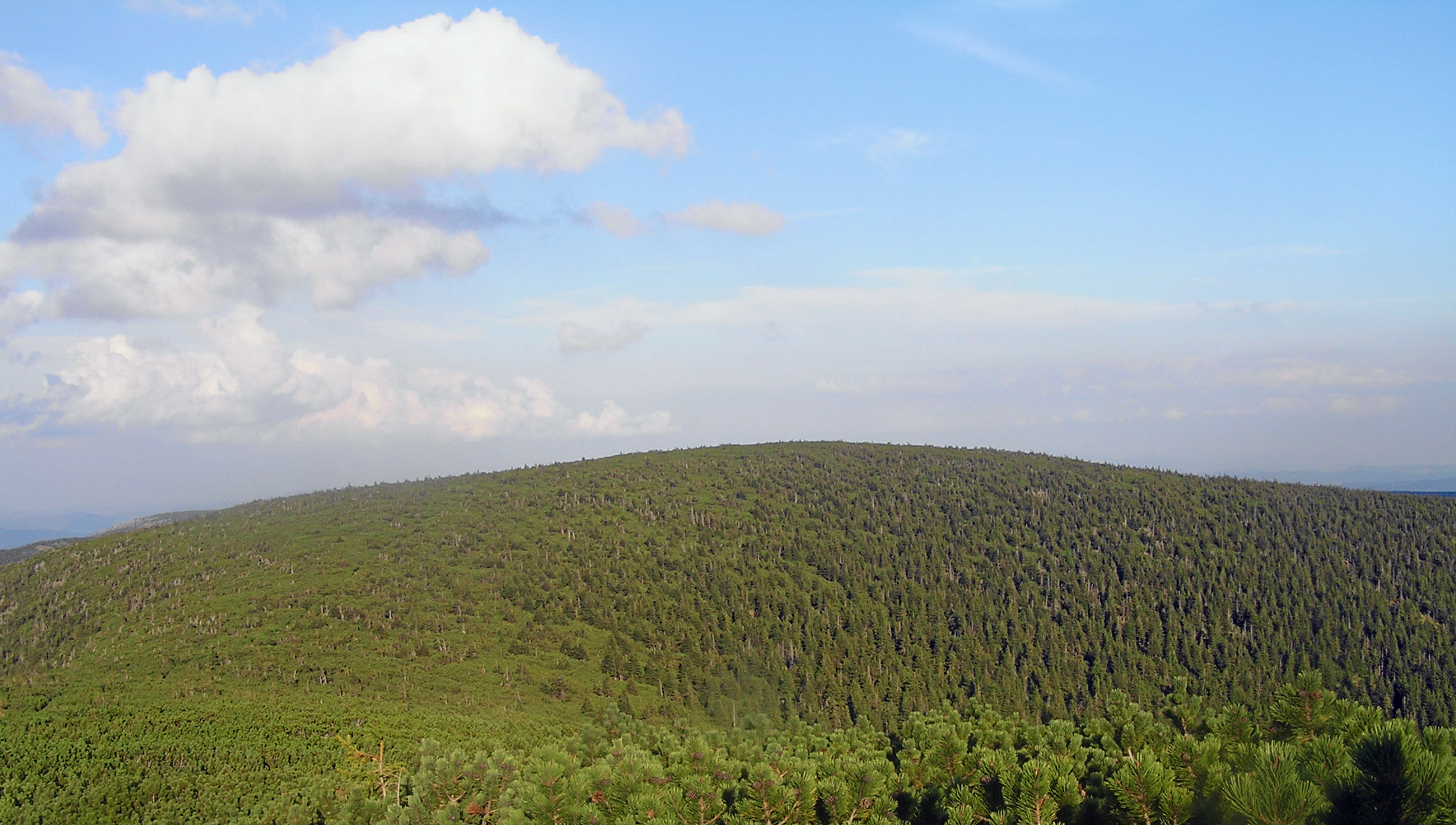 Svorová hora, Krkonoše Mountains, Czech Republic, Poland